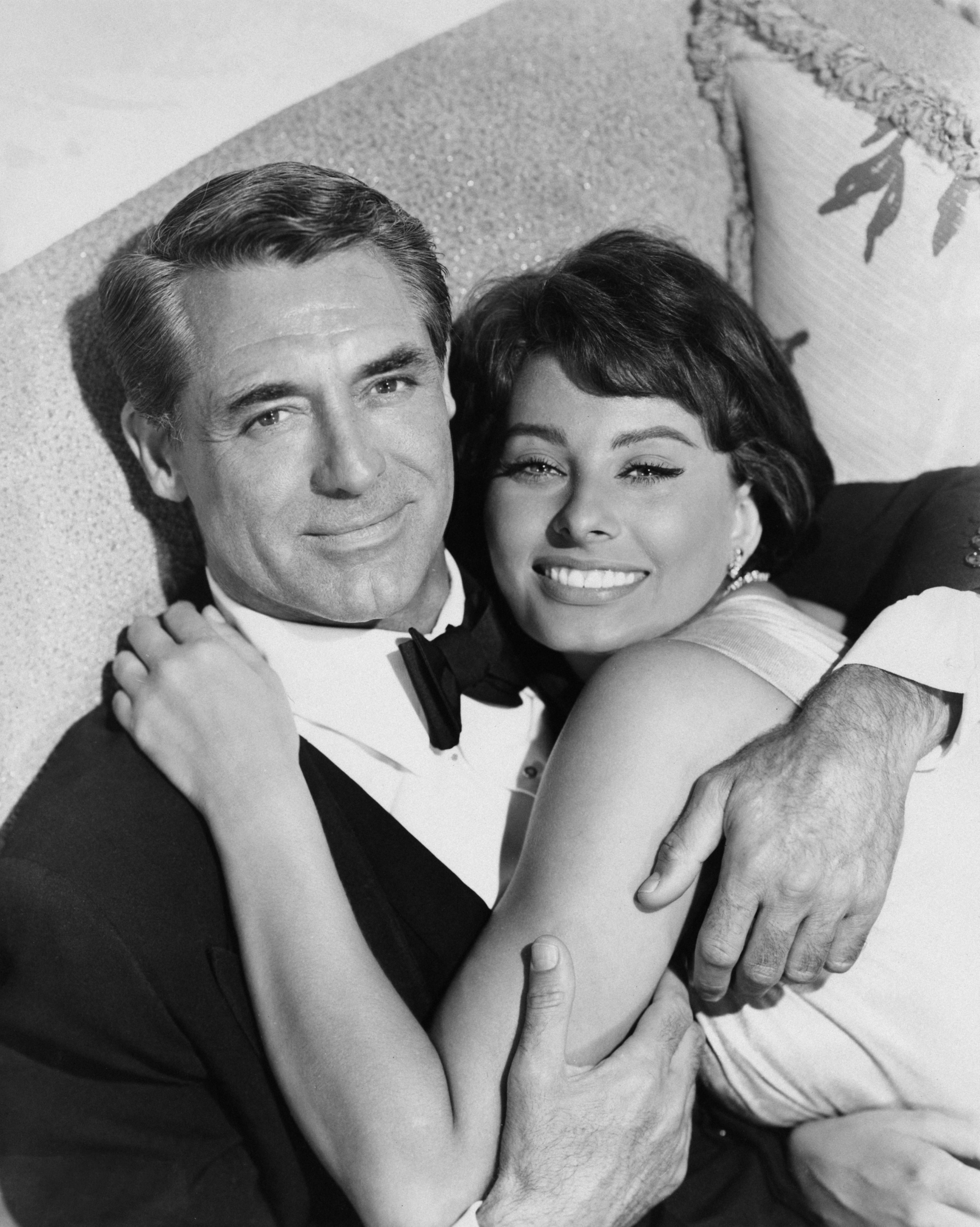 Publicity photograph with Cary Grant and Sophia Loren in the American romantic comedy film Houseboat (1958).